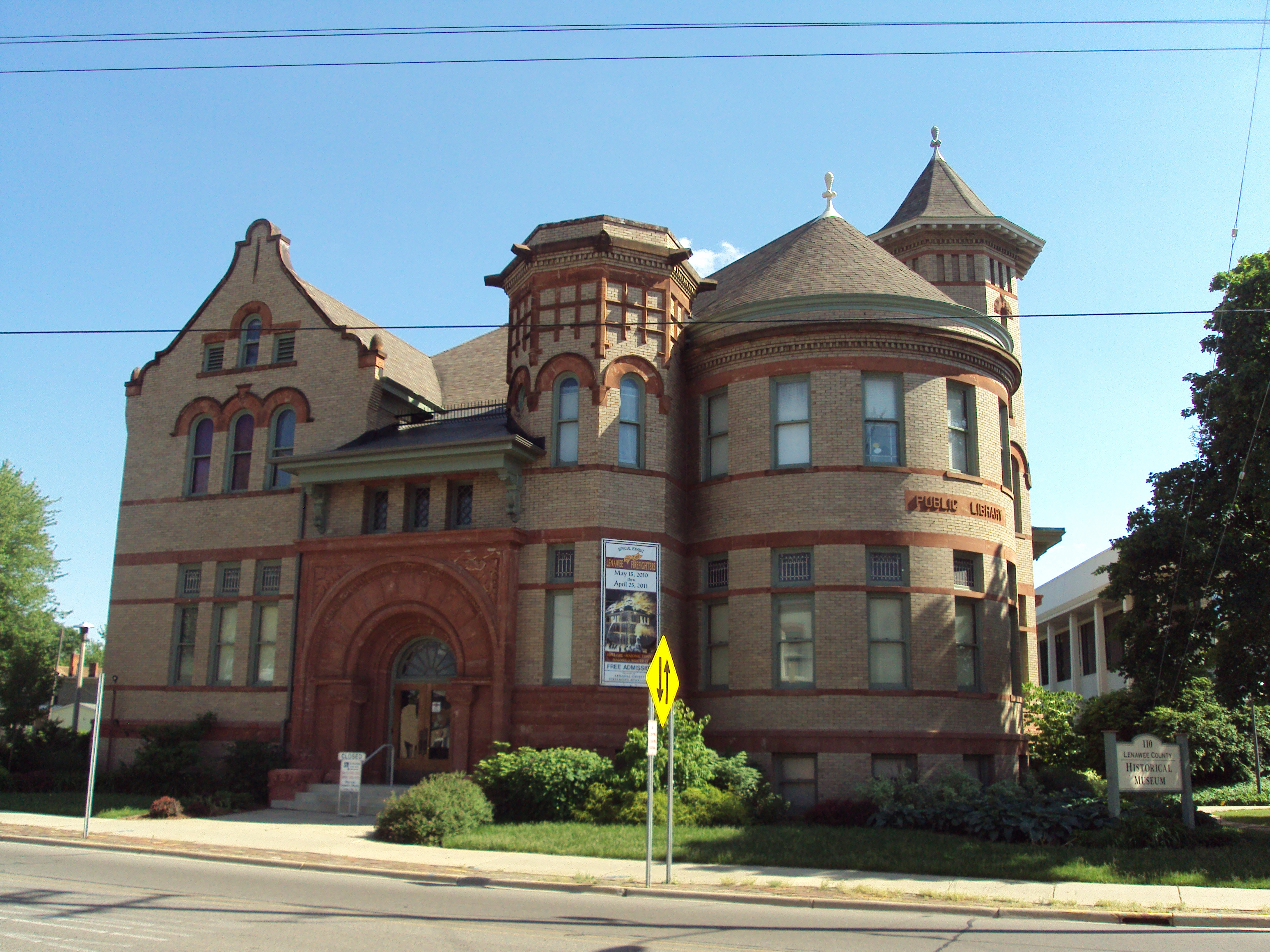 Adrian Public Library — located at 110 East Church Street in downtown Adrian, Michigan. Built in 1909 in the Romanesque revival and Mission Revival Style architecture. A contributing property in the Downtown Adrian Commercial Historic District, a Michigan State Historic Site, and on the National Register of Historic Places.